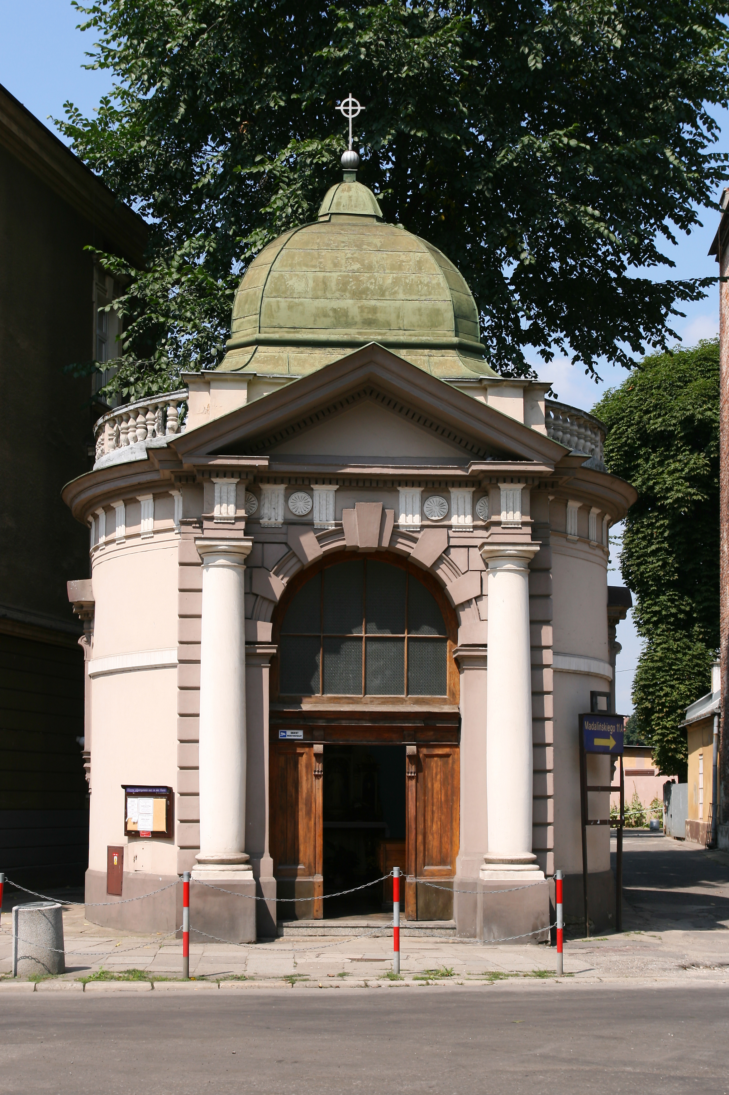 St Peter and St Paul Chapel in Kraków.